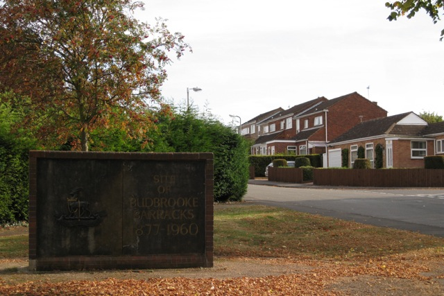 Commemorative wall, Blandford Way, Hampton Magna It reads "Site of Budbrooke Barracks 1877-1960". The emblem to the left is of the Royal Warwickshire Regiment. Arras Boulevard continues up the hill.